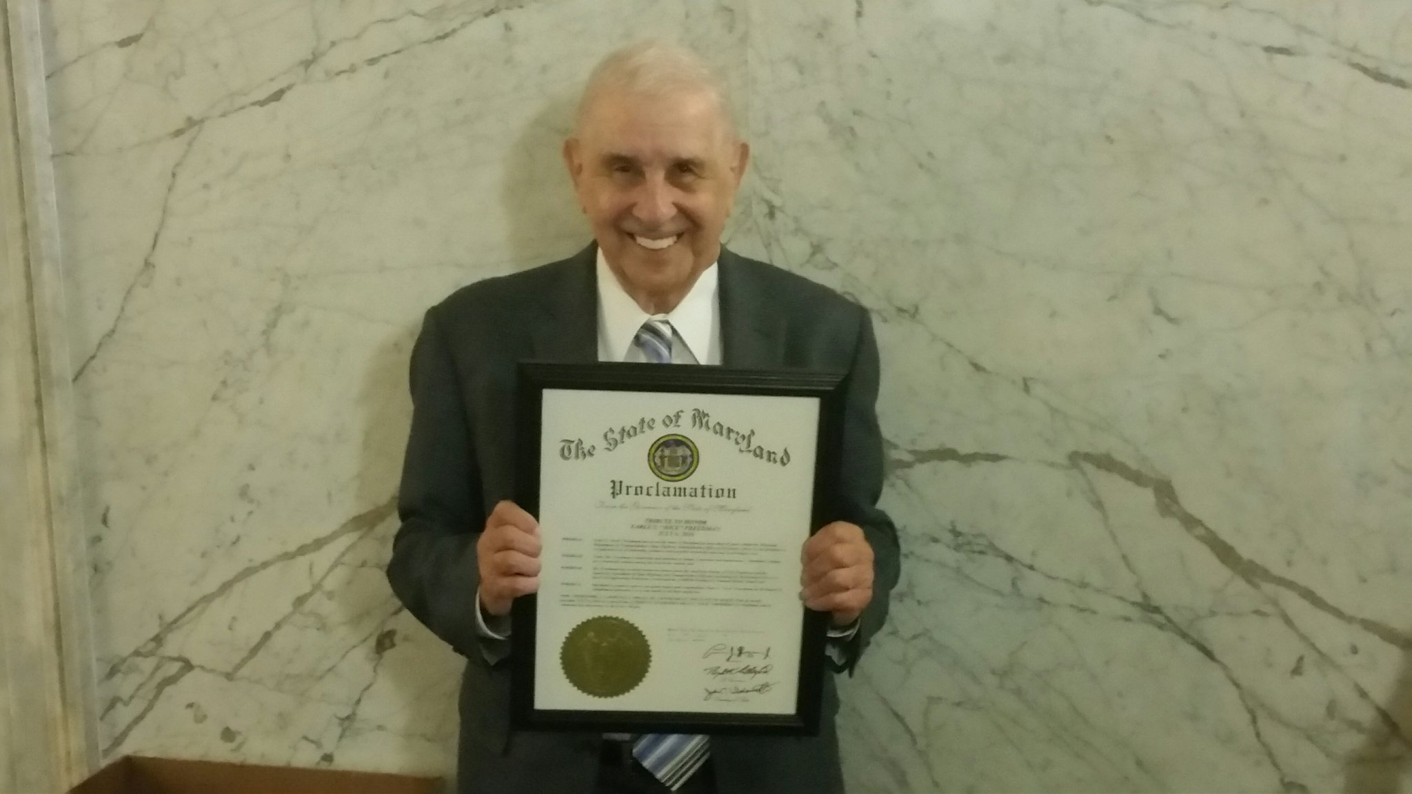 Image of Earle Jock Freedman